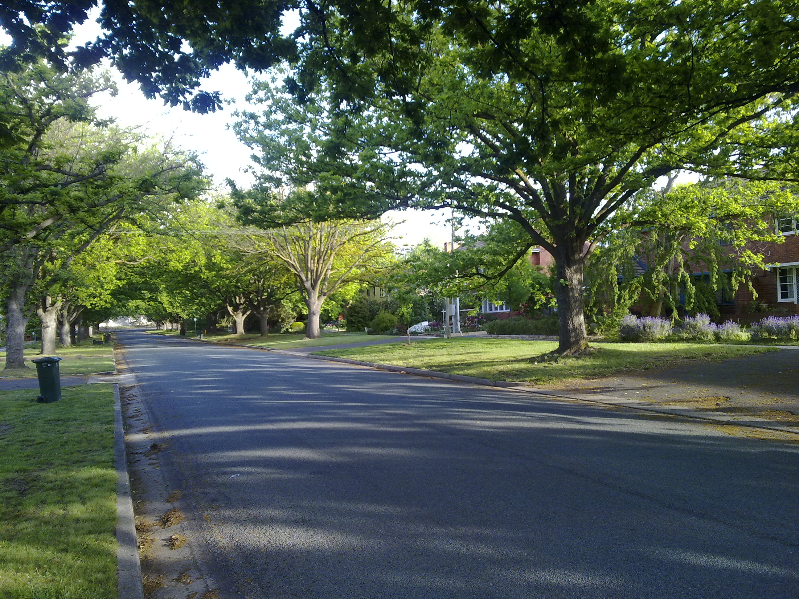 Booroondara Street, in Reid, ACT, looking west towards Anzac Parade West.